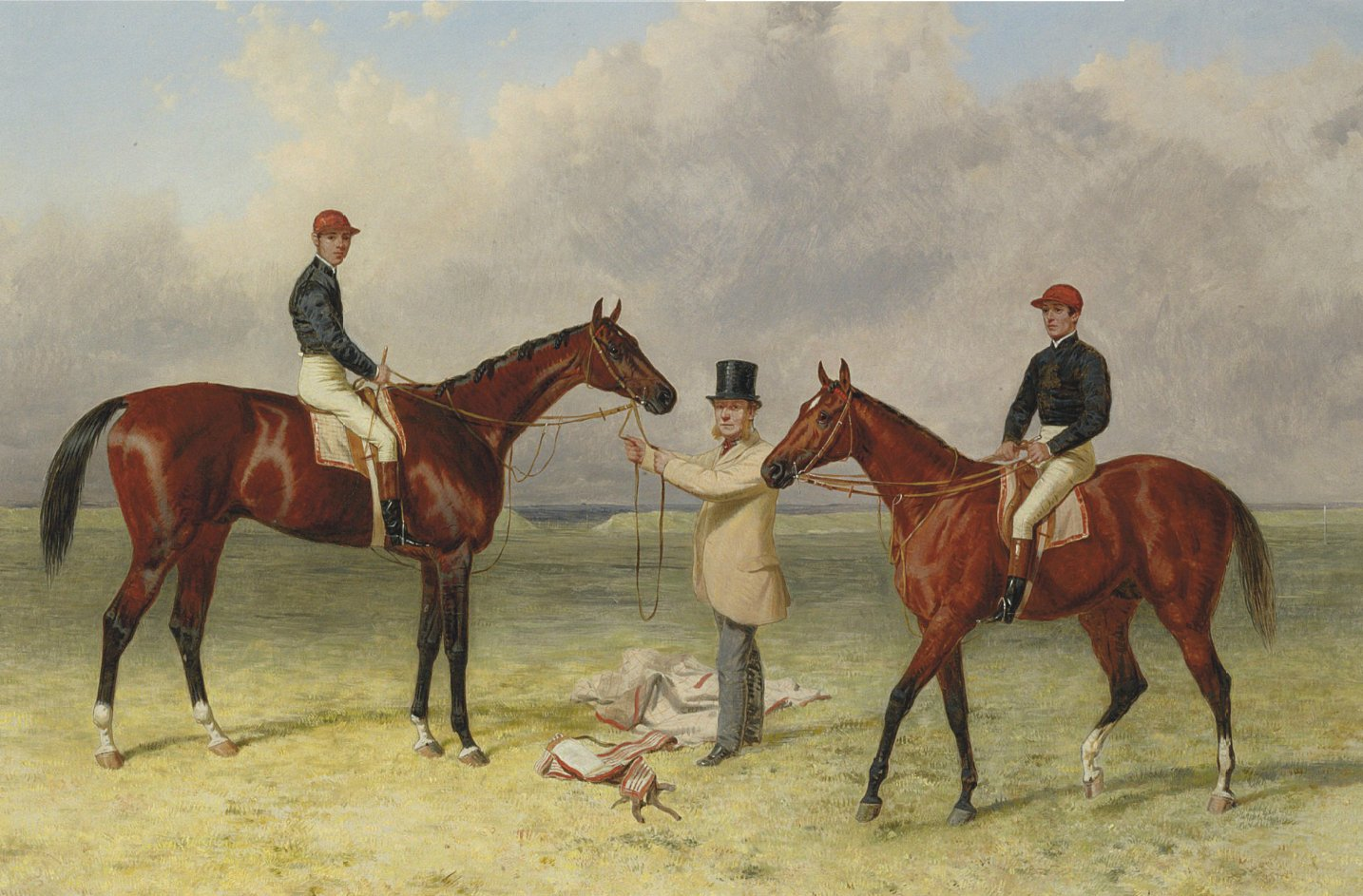 Thoroughbreds, Lord Lyon (left) and Elland (by Rataplan) in 1867 with owner Sir Richard Sutton holding the reins. Lord Lyon was a Triple Crown winner in 1866 and Elland won the 1866 Queen's Vase.